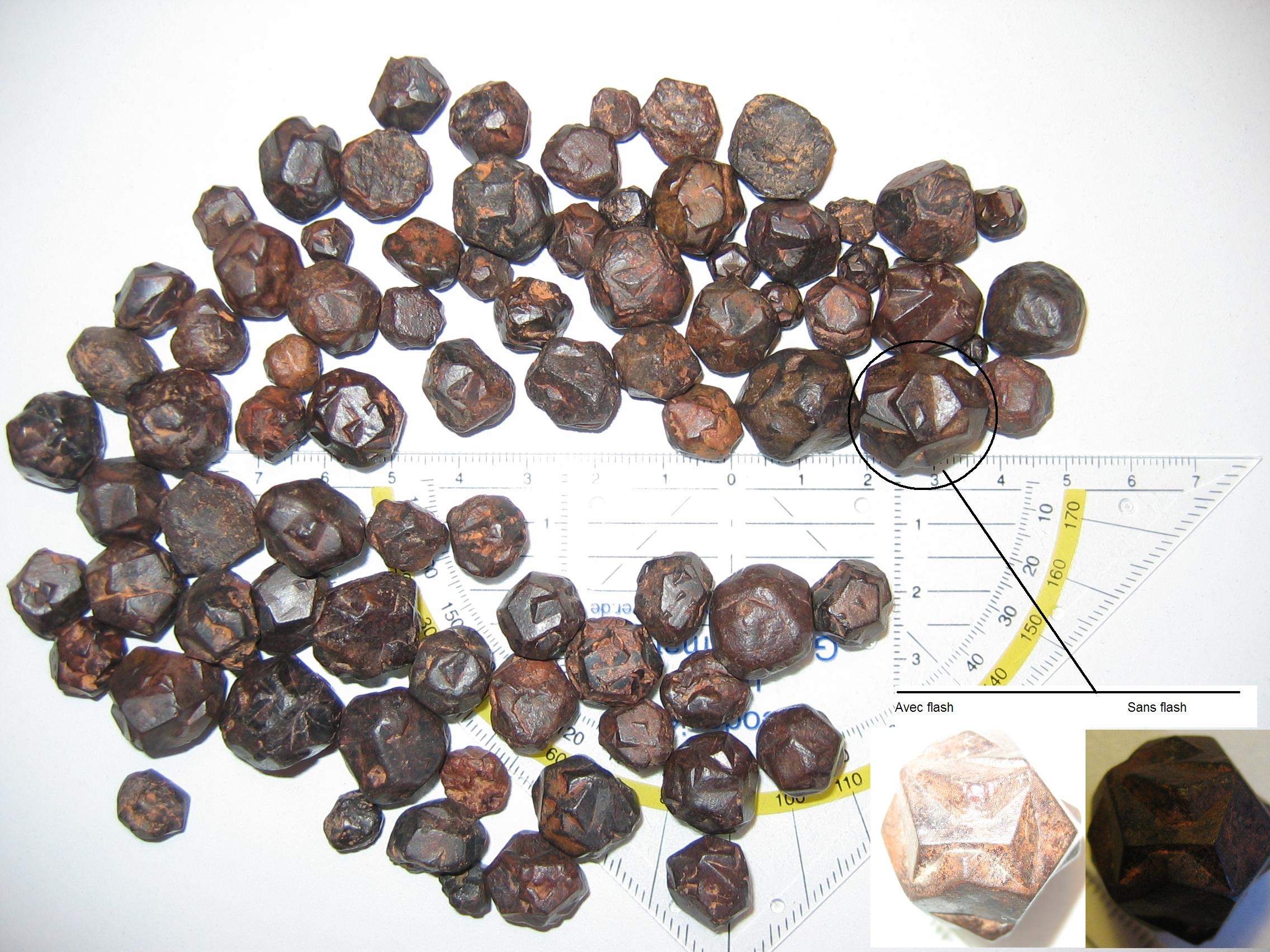 Garnet from Katanga (DRC)